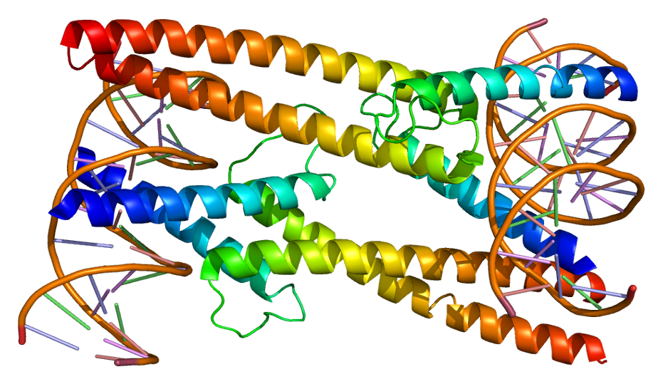 Structure of the MXD1 protein. Based on PyMOL rendering of PDB 1nlw.